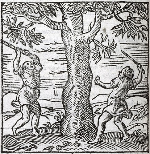 An illustration of Emblem 193 from the 1584 Paris edition of Andrea Alciato's Emblemata